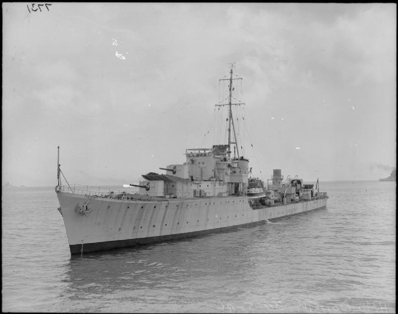 British destroyer HMS ORIBI underway.